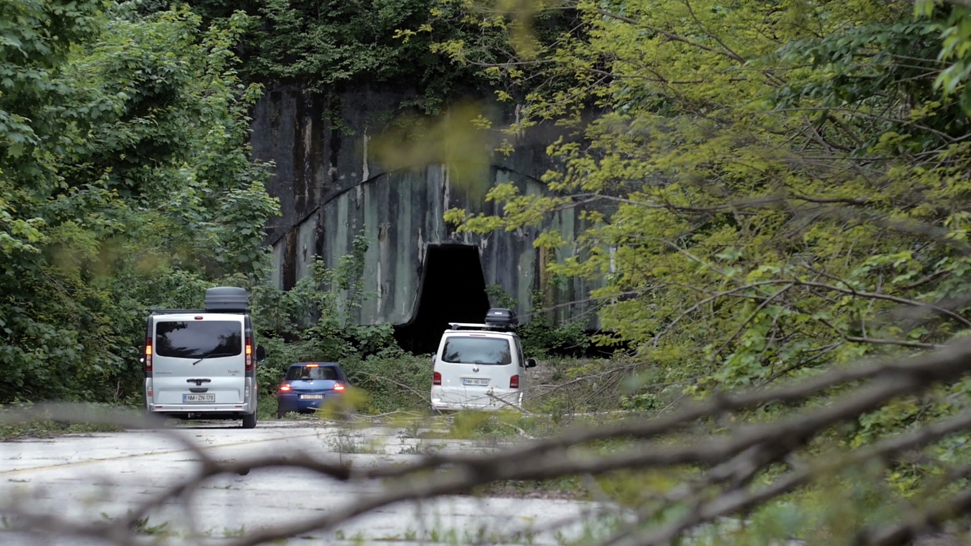 Entrance to the underground space facilities Object 505 - 2